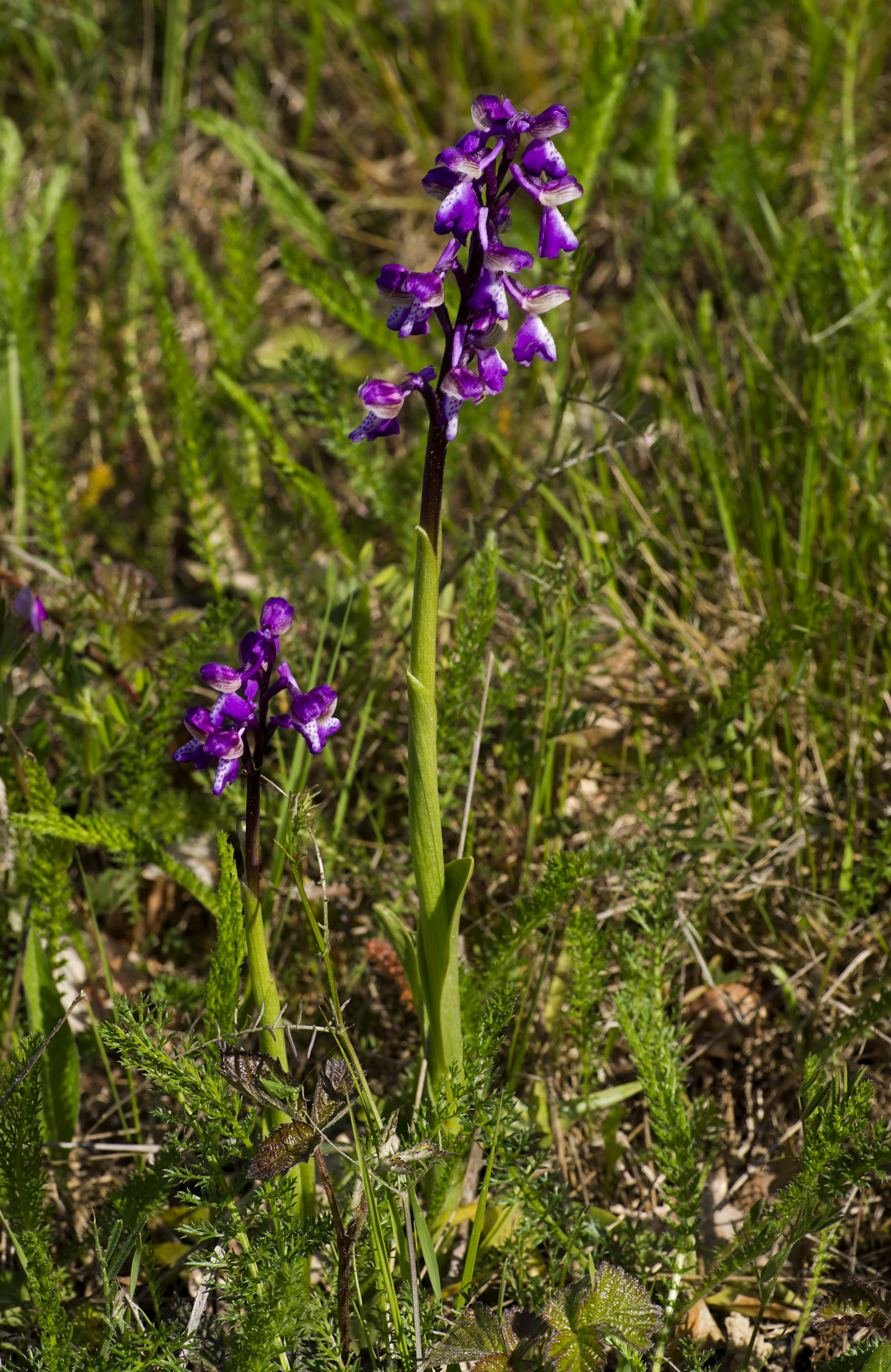 Green-winged Orchid Locality : Fronton, Haute-Garonne France